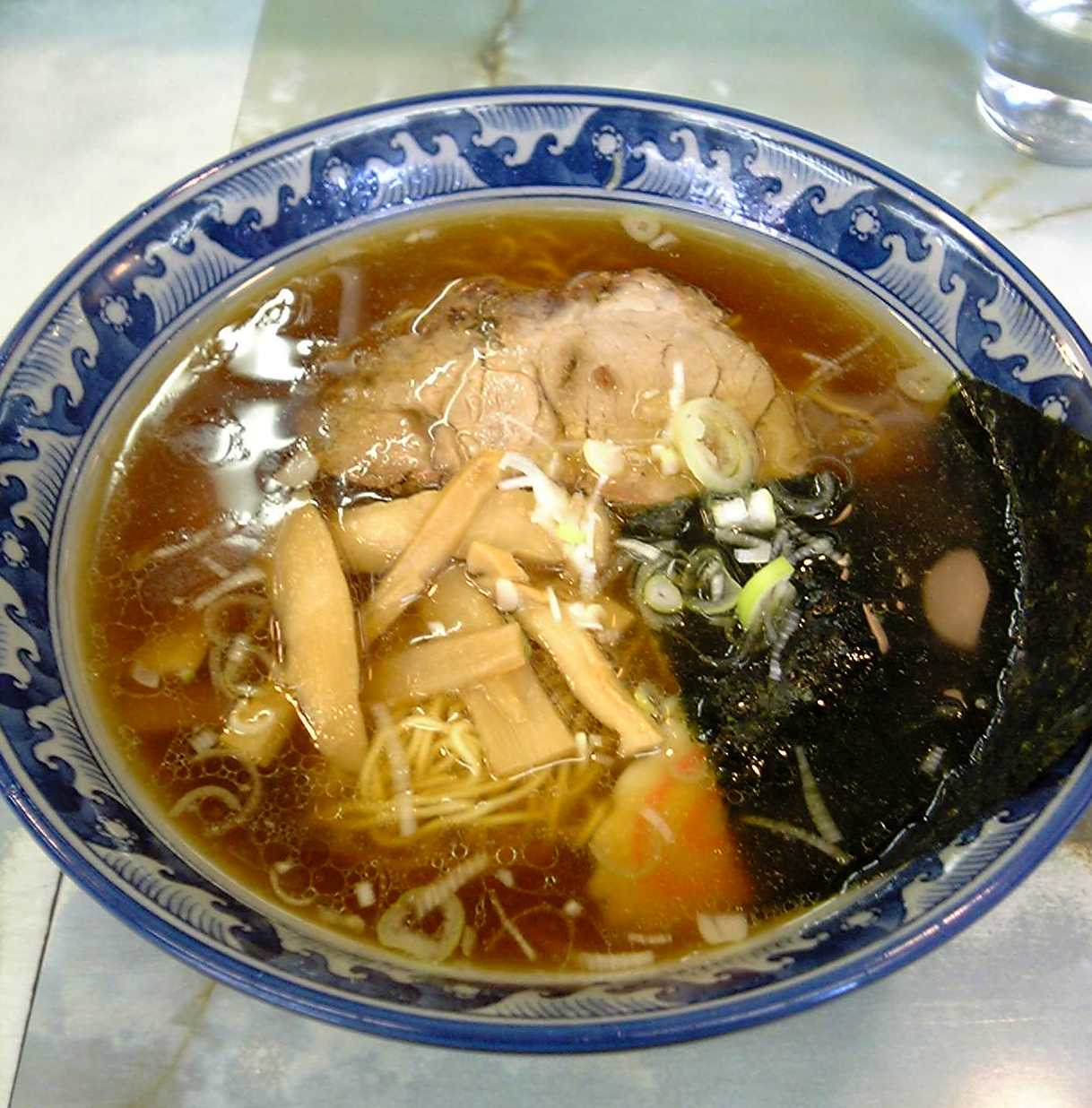 Tokyo-style ramen[1]. (Soy sauce)